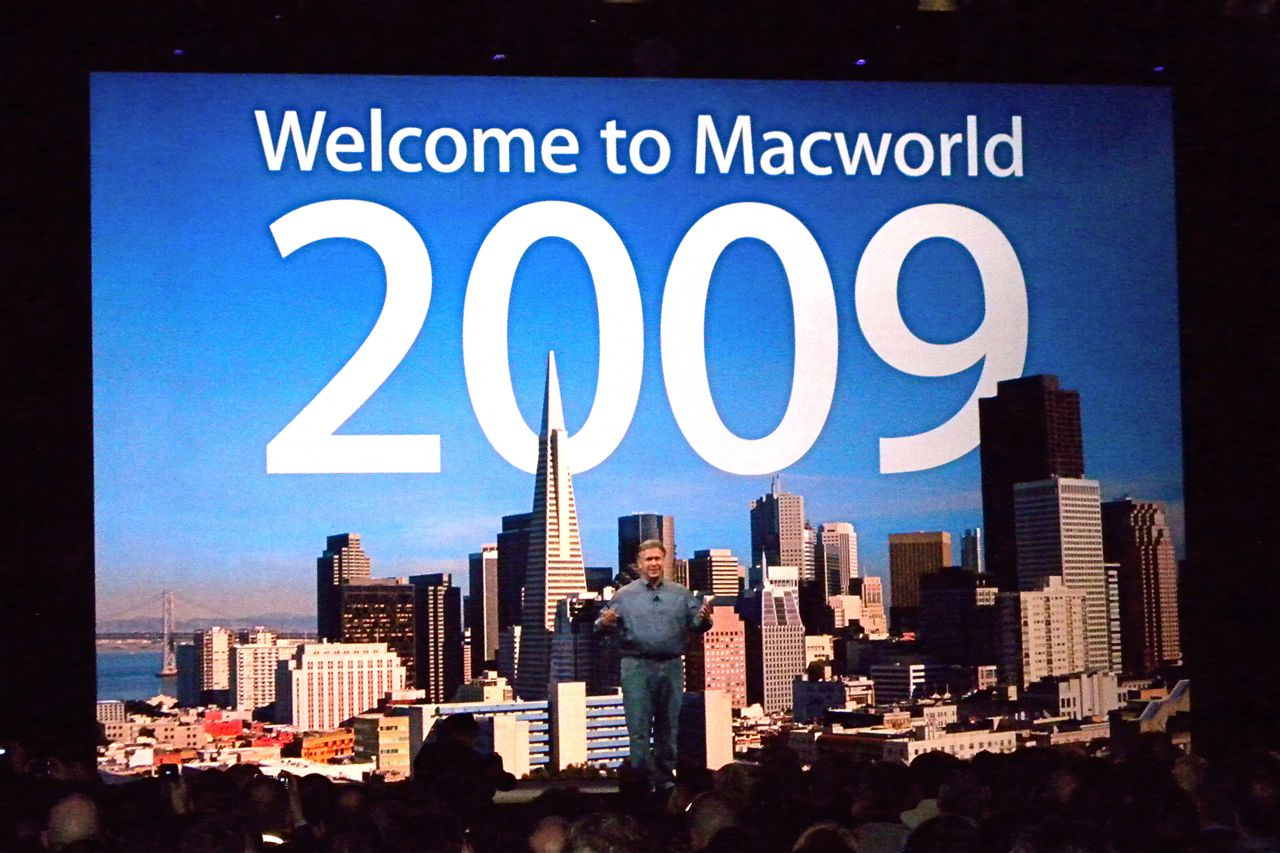 Philip Schiller delivers the opening keynote at Macworld 2009